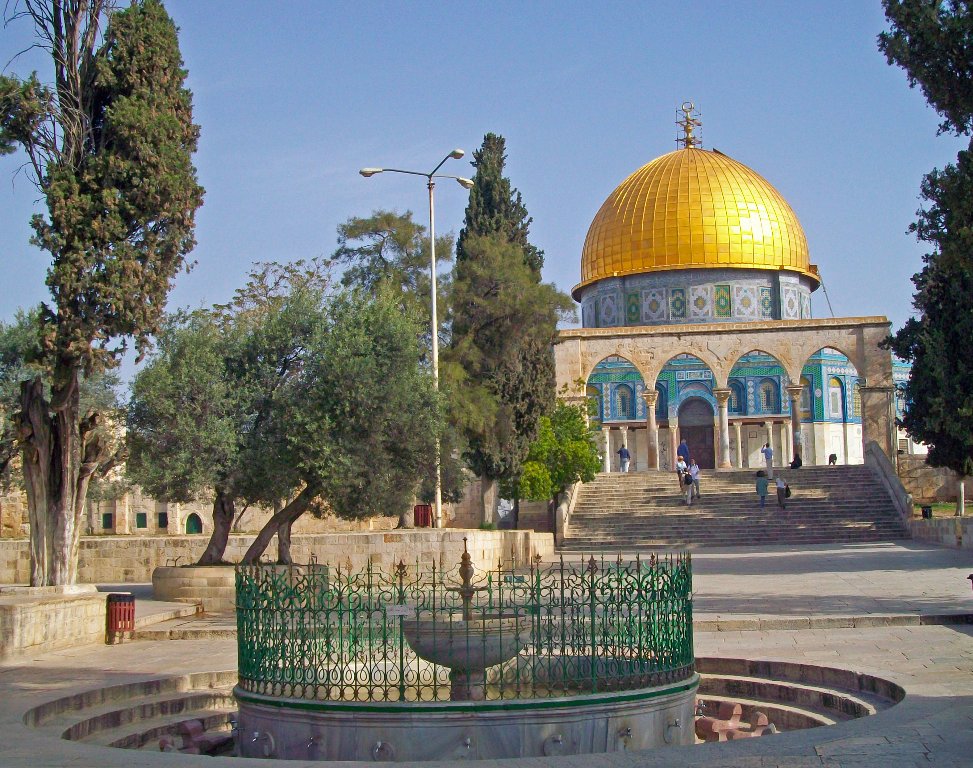 A fountain and the Dome of the Rock in Jerusalem